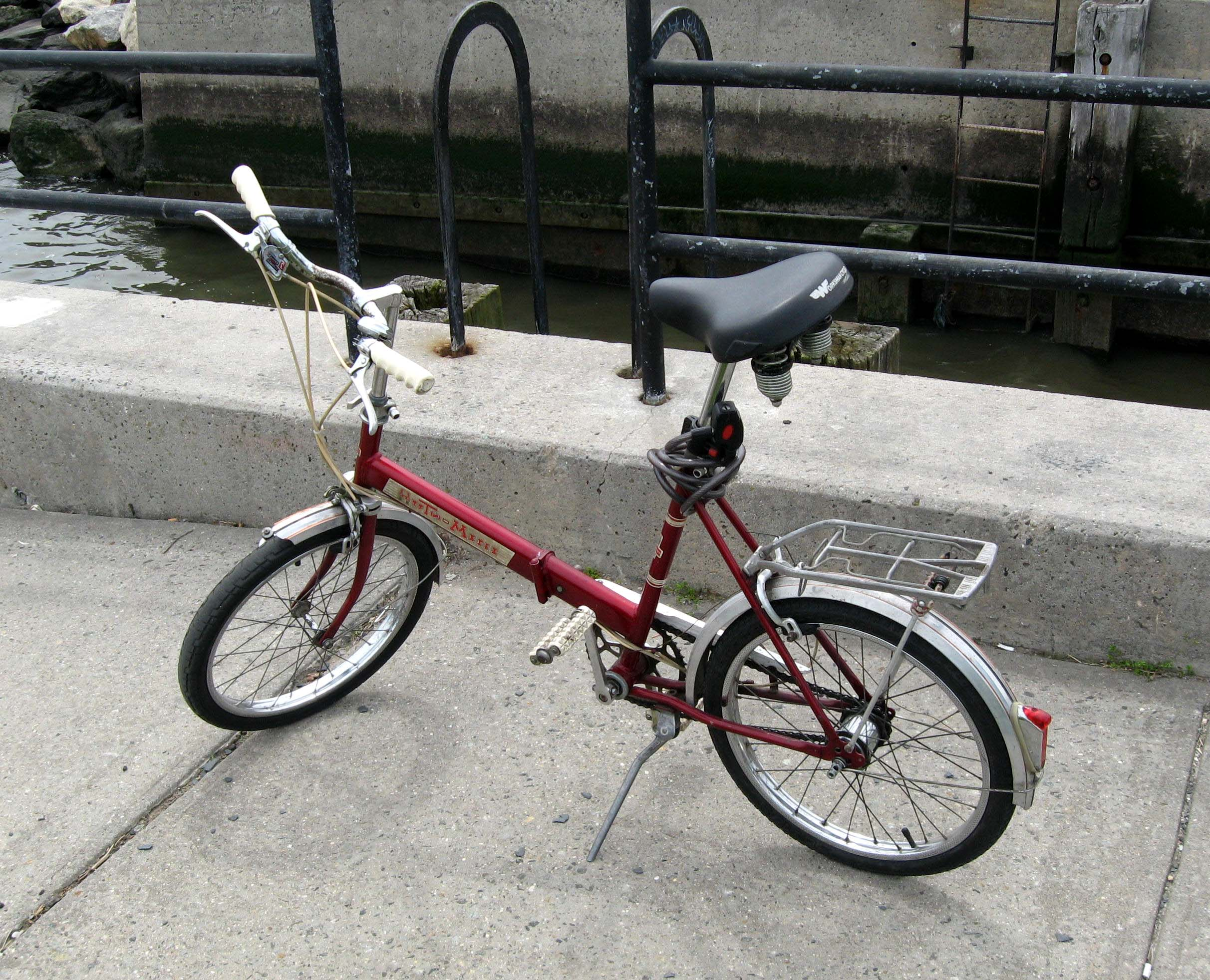 Looking west in the early afternoon at the boat ramp at the south end of Soundview Park, Bronx, where a Folding bicycle made in Austria in the 1960s leaned against a fence.